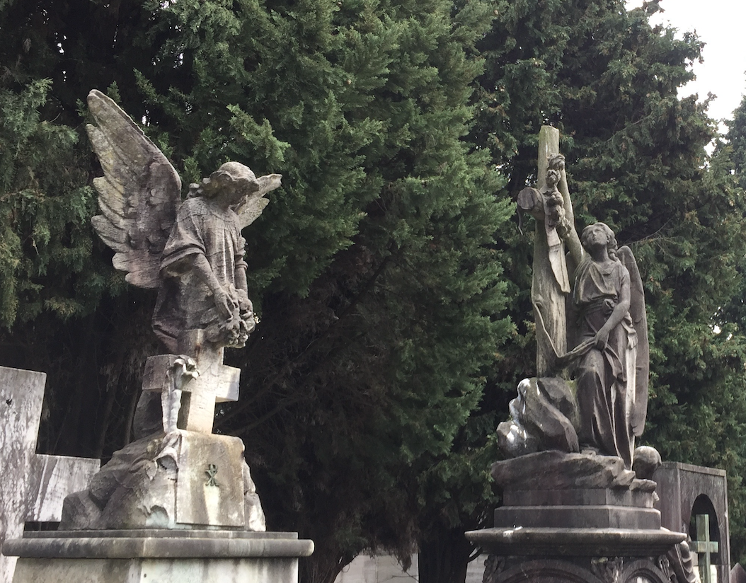 Cimitero Cesino